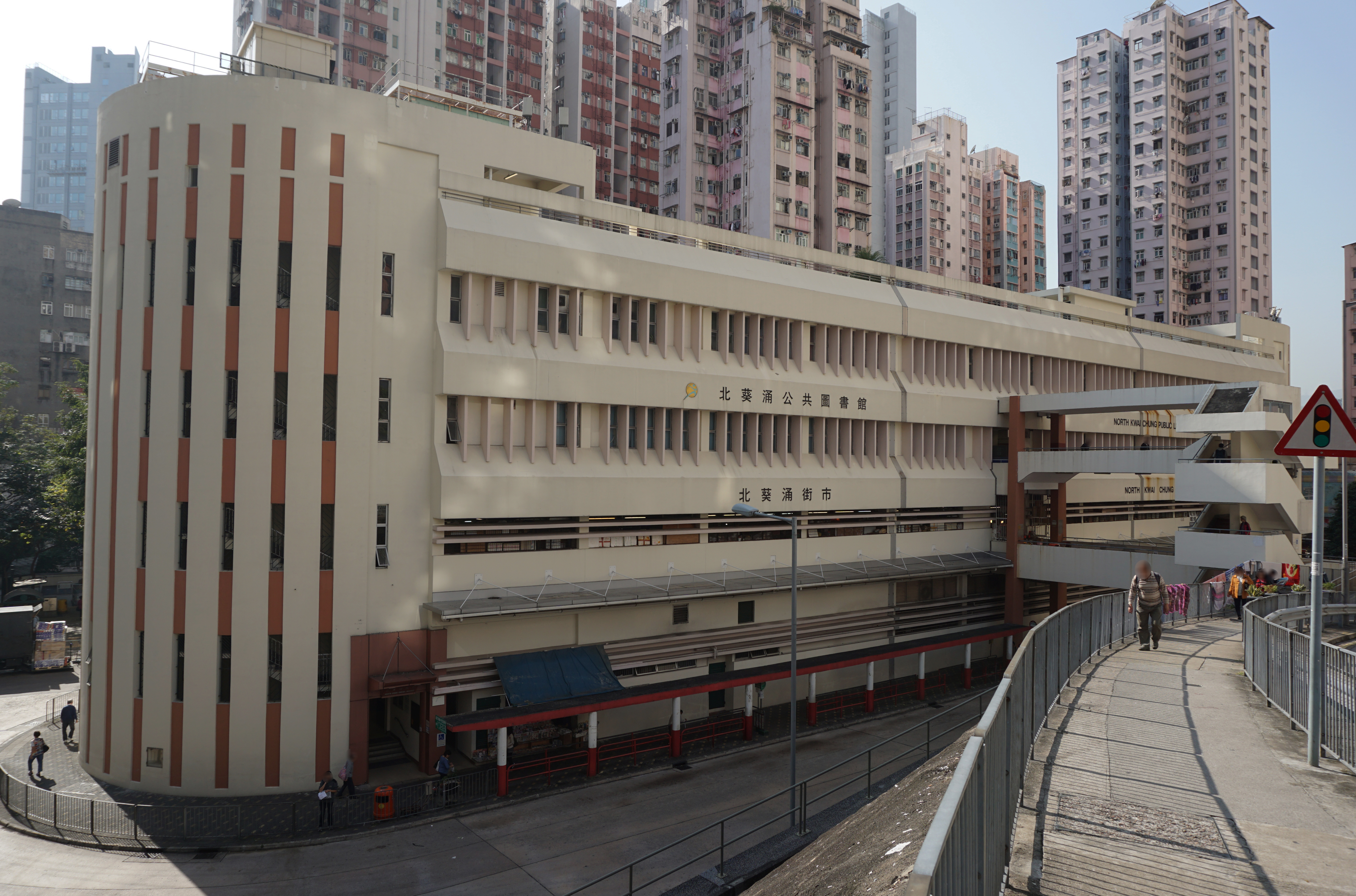 North Kwai Chung Market and Public Library in Shek Yam, Hong Kong.